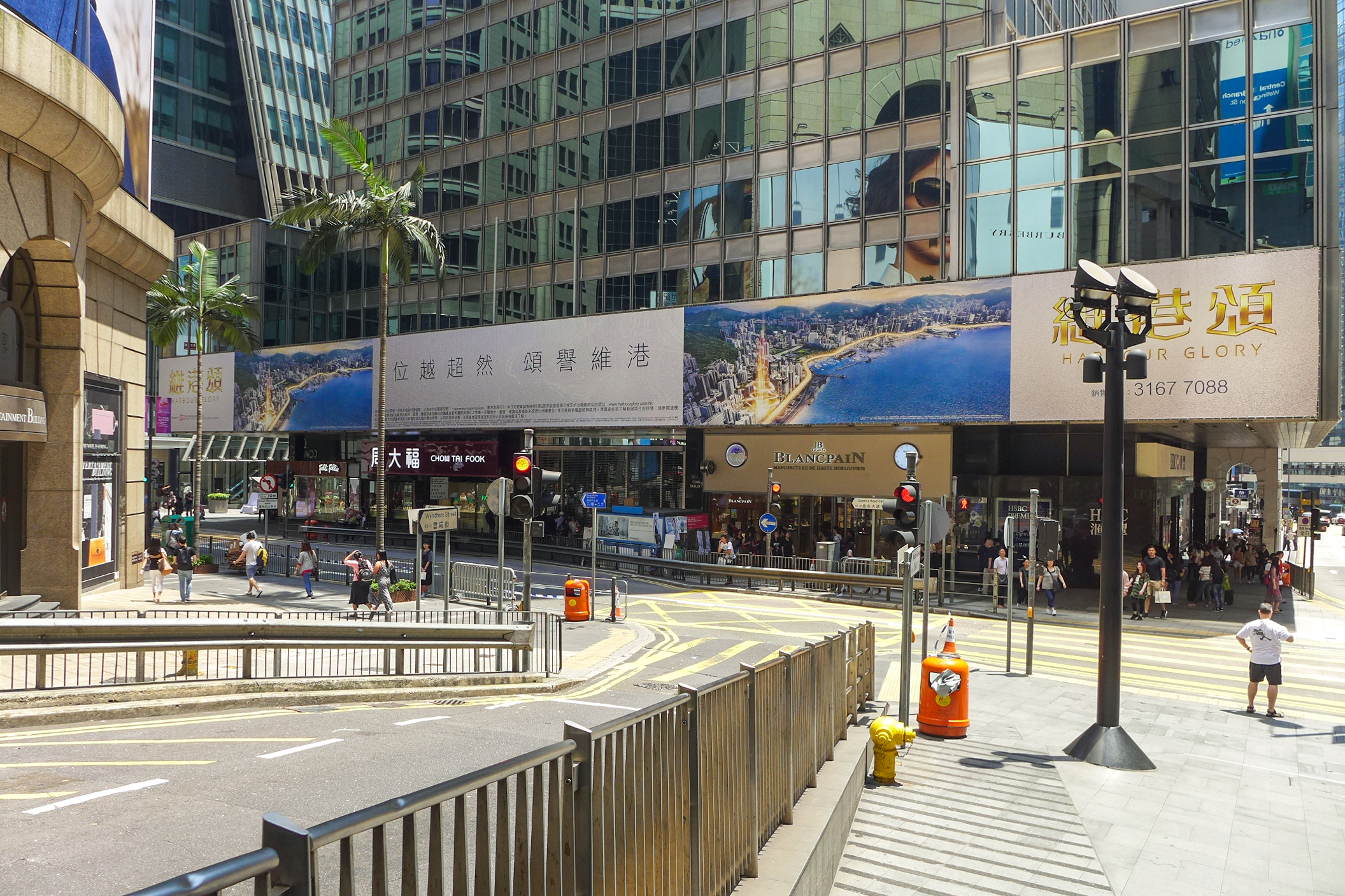 Wyndham Street